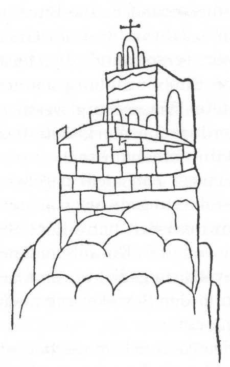 Image shows the castle Quedlinburg a. 956, a drawn recognitions sign (MGH DD O I, 184)